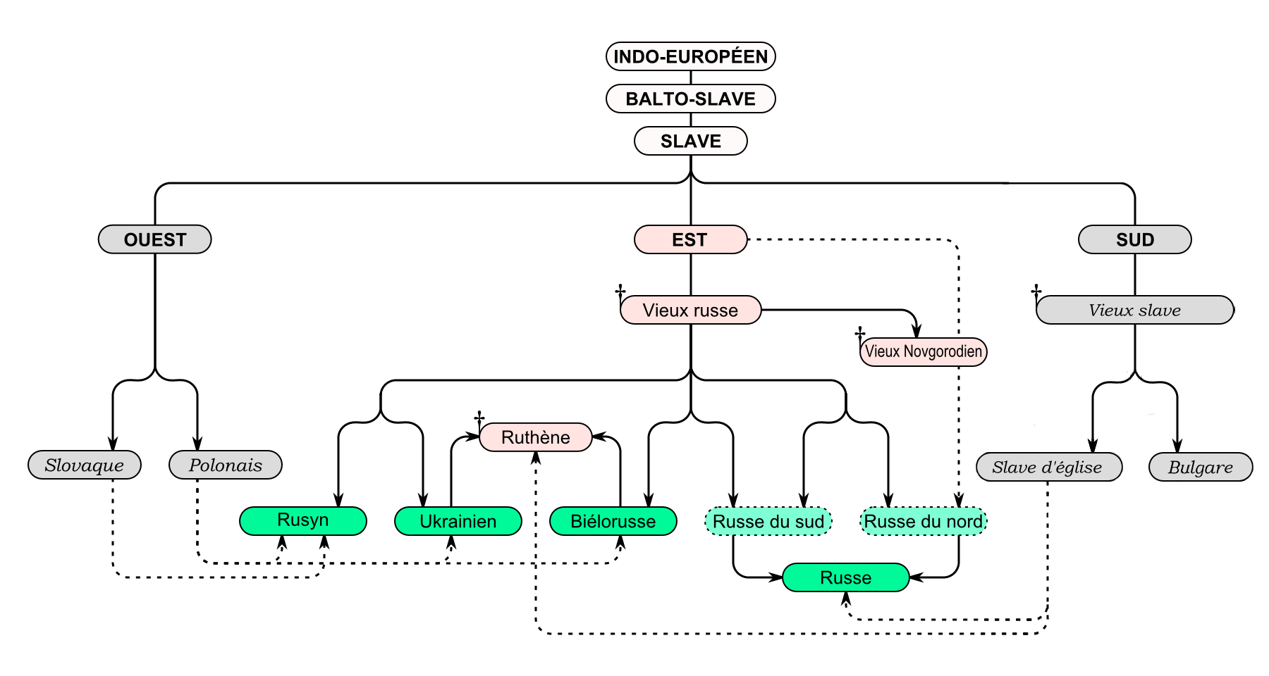 East Slavic Languages Tree (in French)